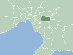 Map of Melbourne's Local Government Areas, highlighting City of Whitehorse